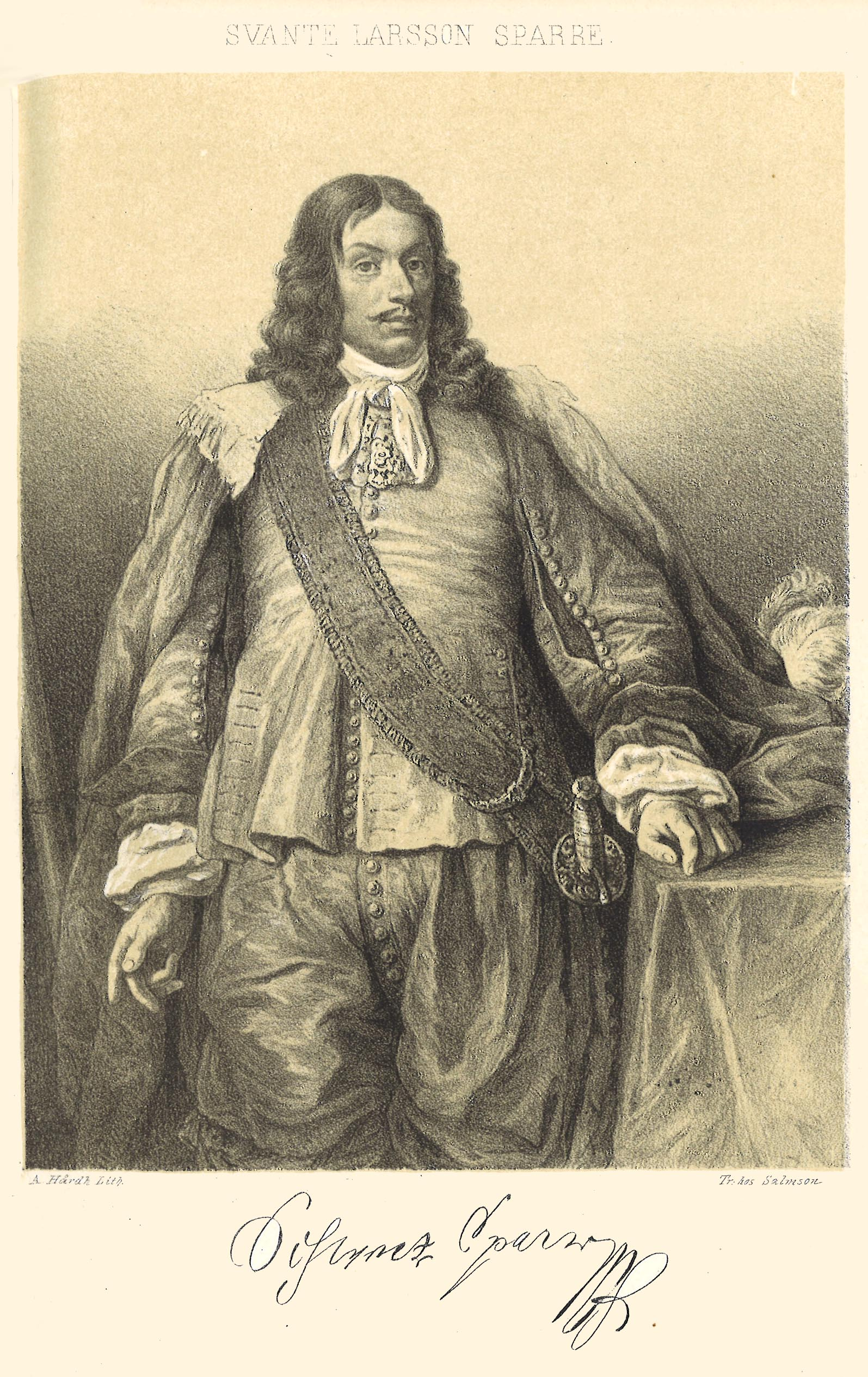 Svante Larsson Sparre (1623-1652), Swedish county governor and "lantmarskalk" (chairman of the estate of nobility).